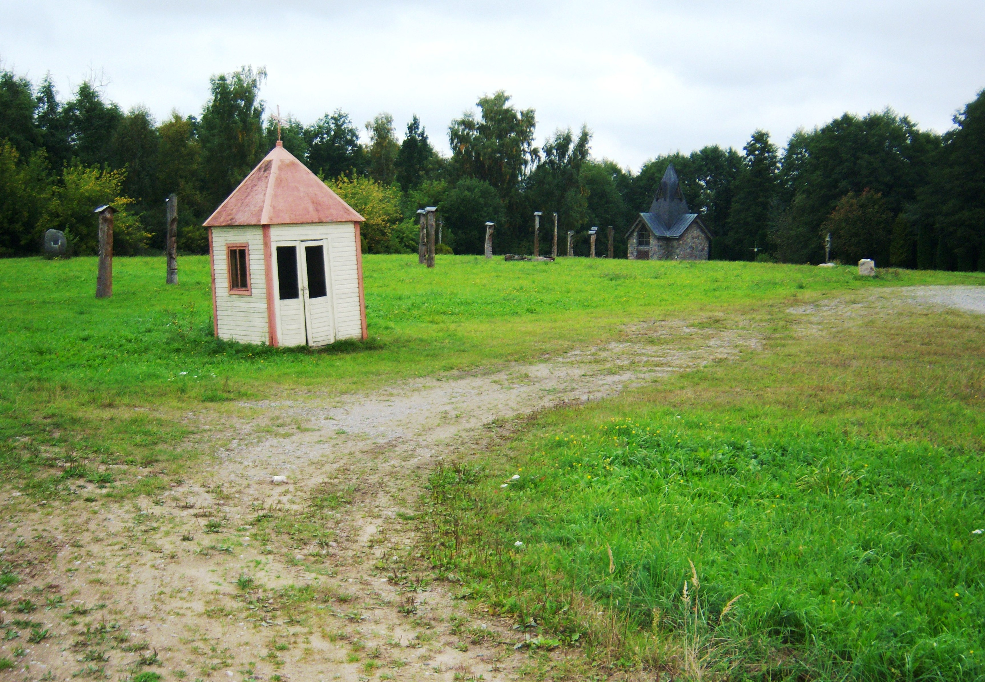 Chapel in Mažučiai (Pilviškiai), Vilkaviškis District, Lithuania